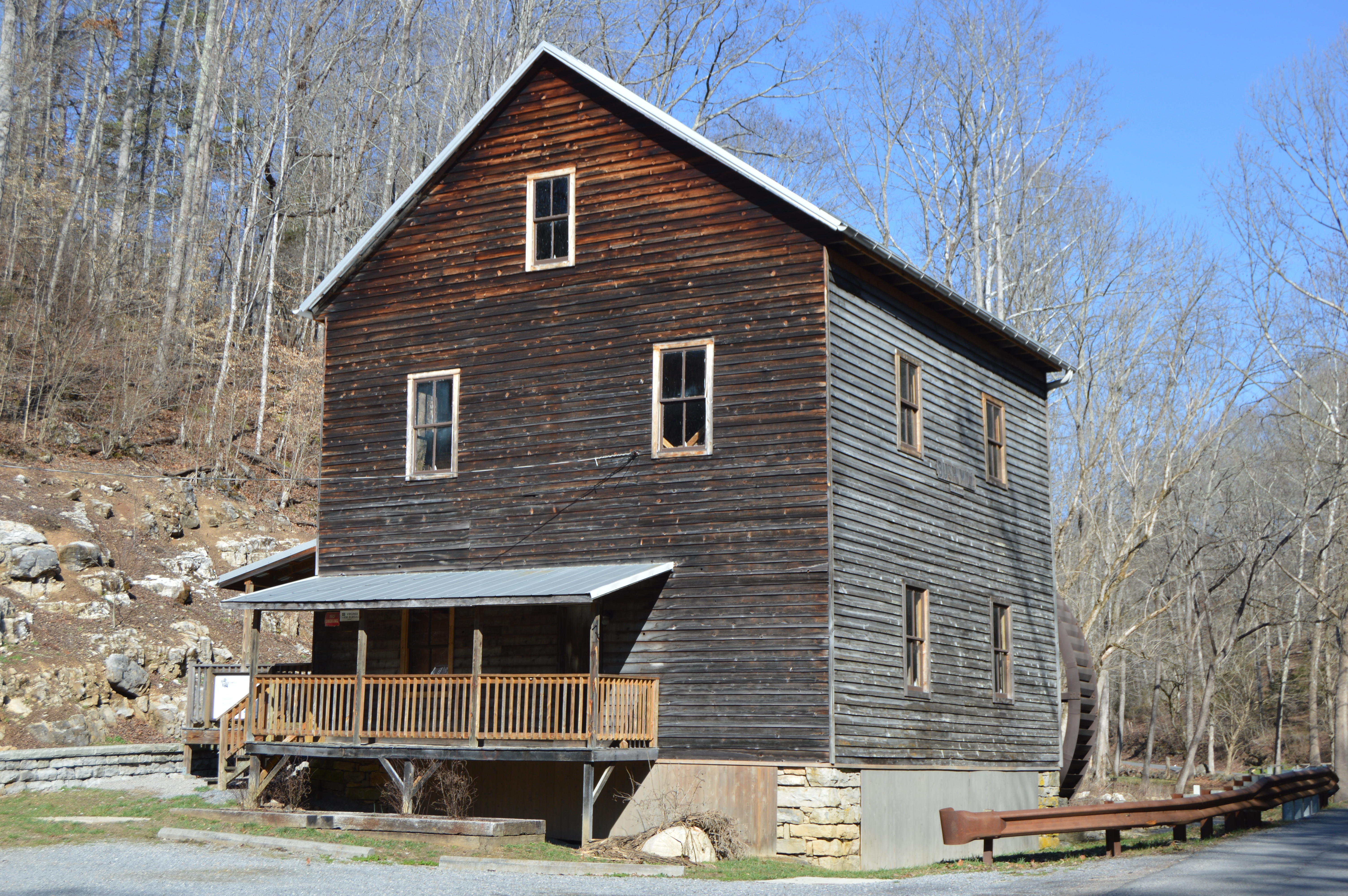 Western and southern sides of the Bush Mill, located on Twin Springs Road west of Nickelsville in Scott County, Virginia, United States. Built in 1896, it is listed on the National Register of Historic Places.